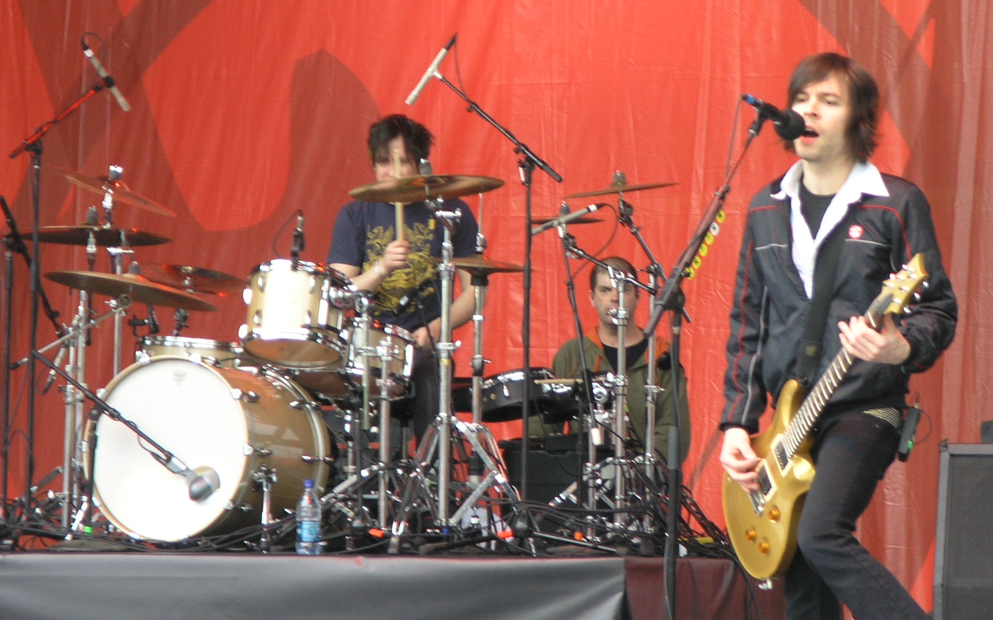 Taken during MyCokeFest at Centennial Olympic Park in Atlanta